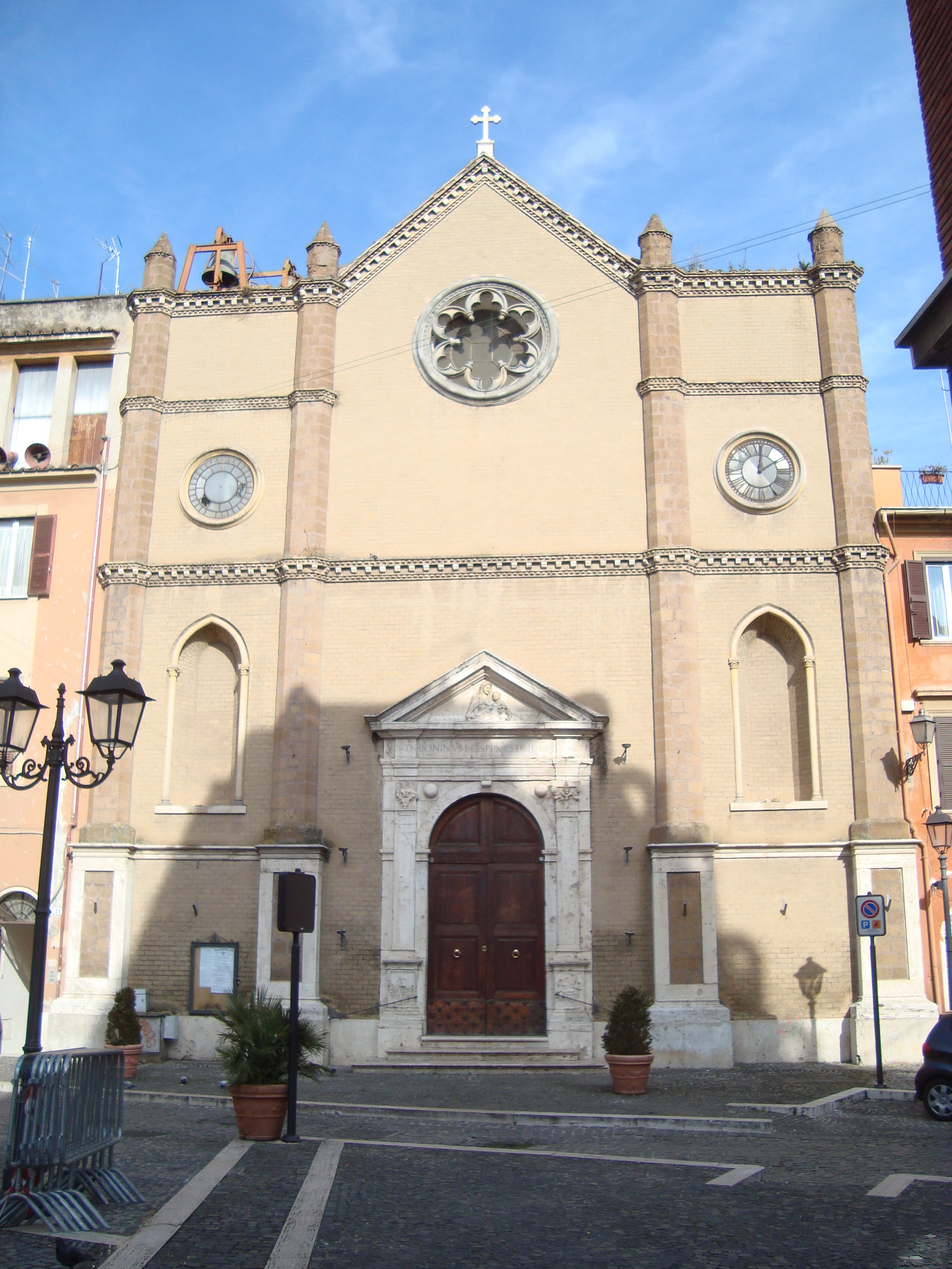 The church San Biagio in Tivoli